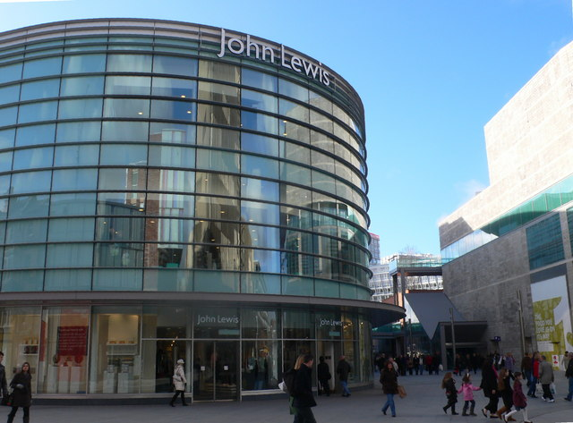 John Lewis, Liverpool New John Lewis store in the centre of lIverpool.